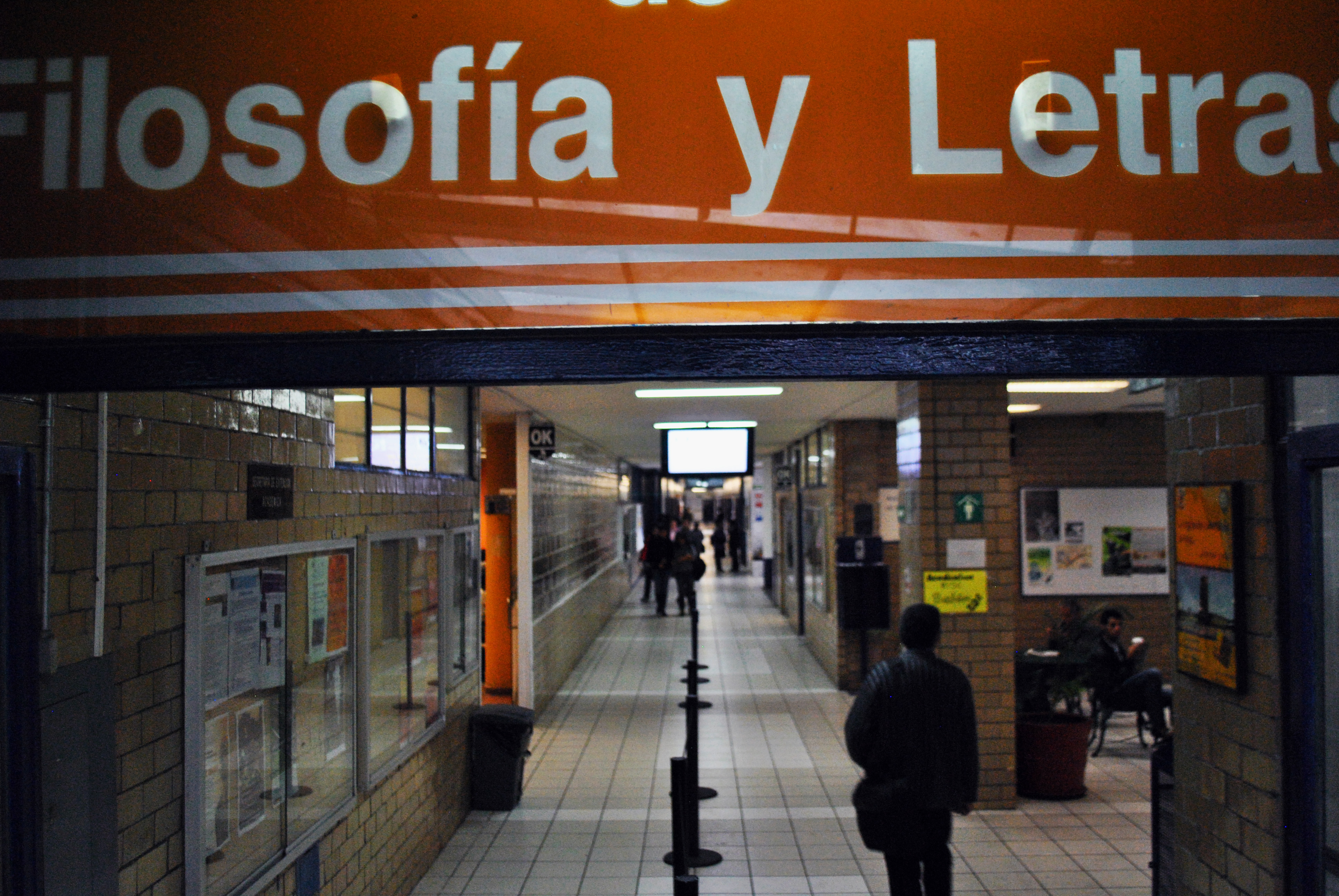 Main entrance of the Faculty of Philosophy and Literature of the UNAM.